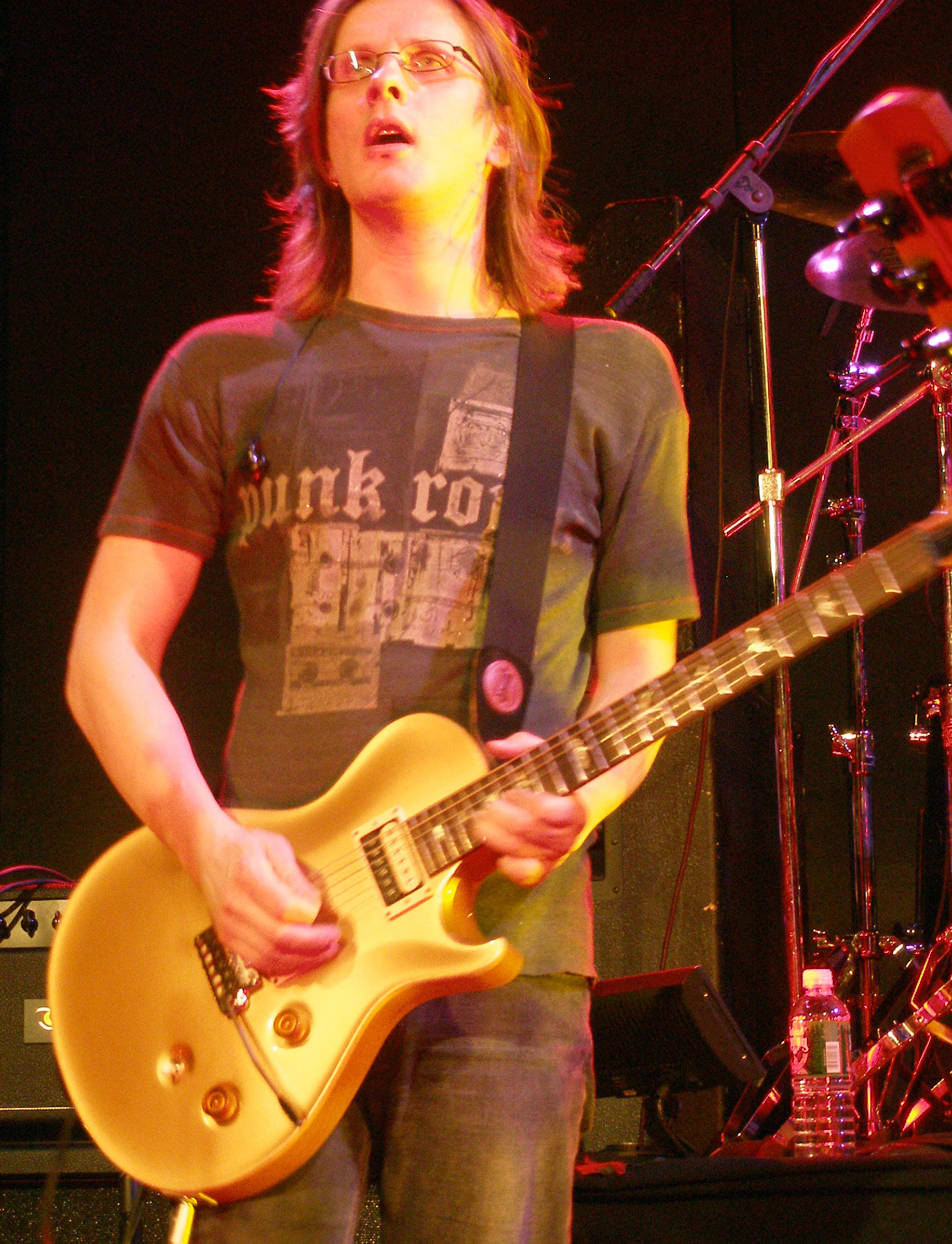 Steven Wilson onstage with Blackfield, Bowery Ballroom, NYC, March 2007.